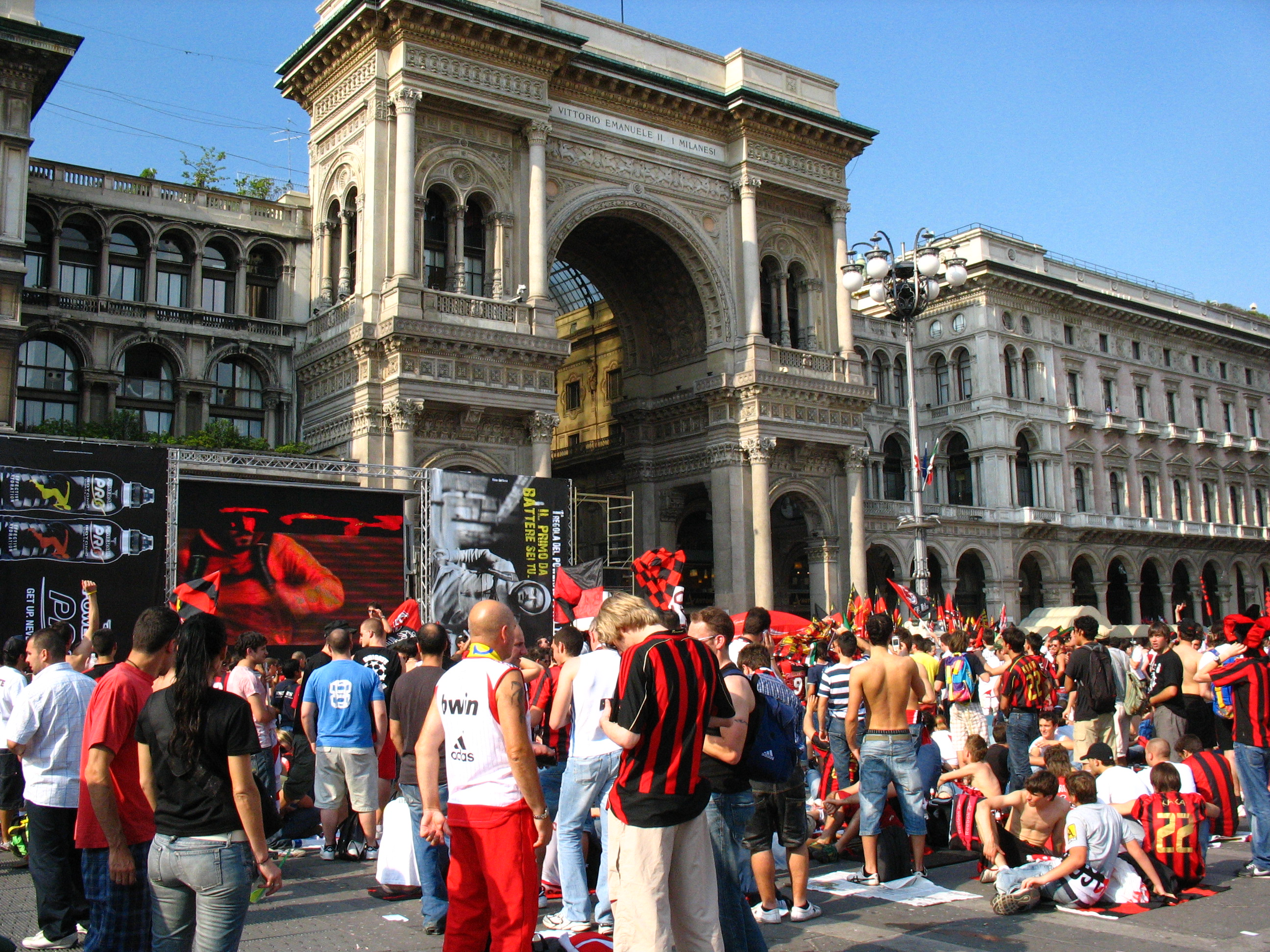 AC Milan supporters, following the 2007 Champions League final from MilanChampions League Final